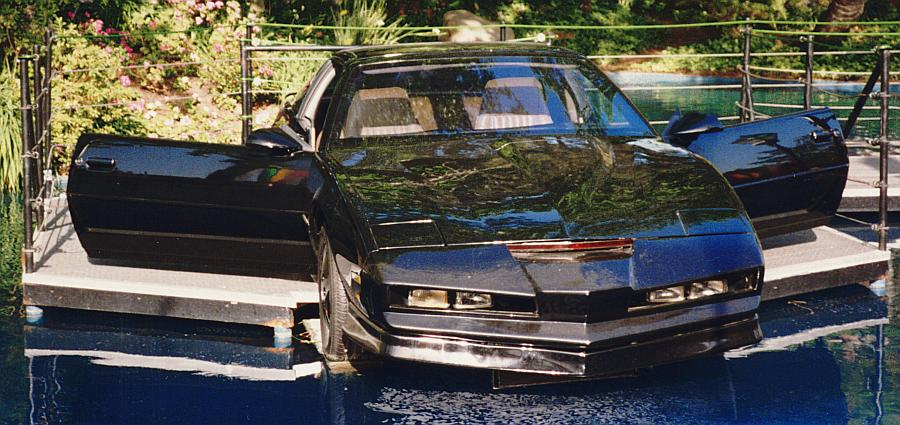 KITT at the Universal Studios Theme Park in 1993. As discussed in this video from the Jay Leno's Garage web series, the car was originally built as a stunt car for the show, with a solid roof and based on a 1984 Firebird, and without the K.I.T.T. dashboard. After the show ended, a dashboard that had been used on the insert stage when filming the show was put into the car and it was equipped with speakers and microphones for the Universal Studios exhibit (where you could sit in the car and "speak" to it). As of 2018, the car is owned by Joe Huth. This file is the same image as File:K.I.T.T. at Universal Studios, original uncropped version.jpg, except it has been cropped and color-enhanced to bring out the reflections a bit more.